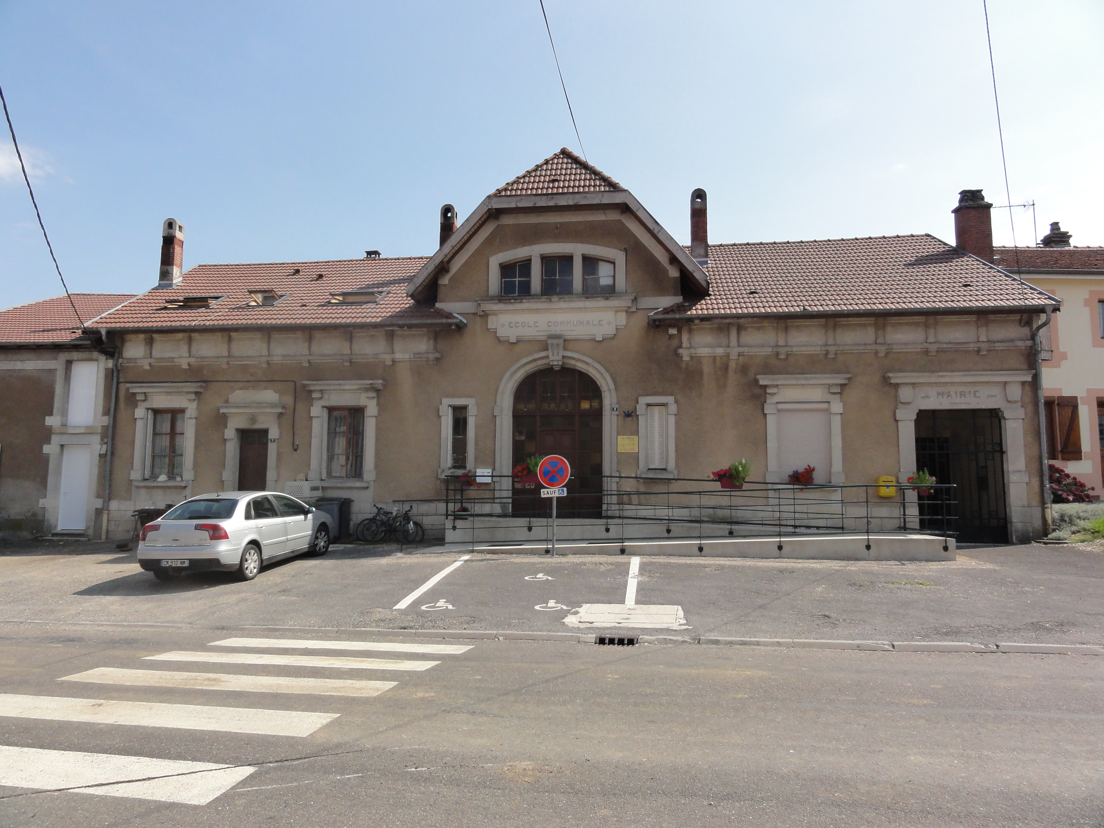 Eix (Meuse) mairie